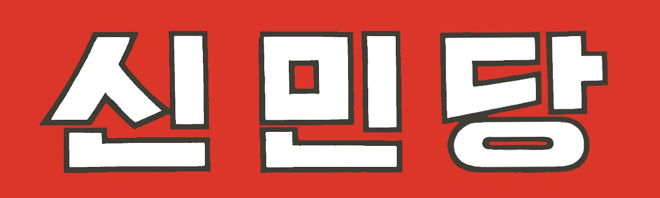 Logo of the Democratic Party of Korea (1971)